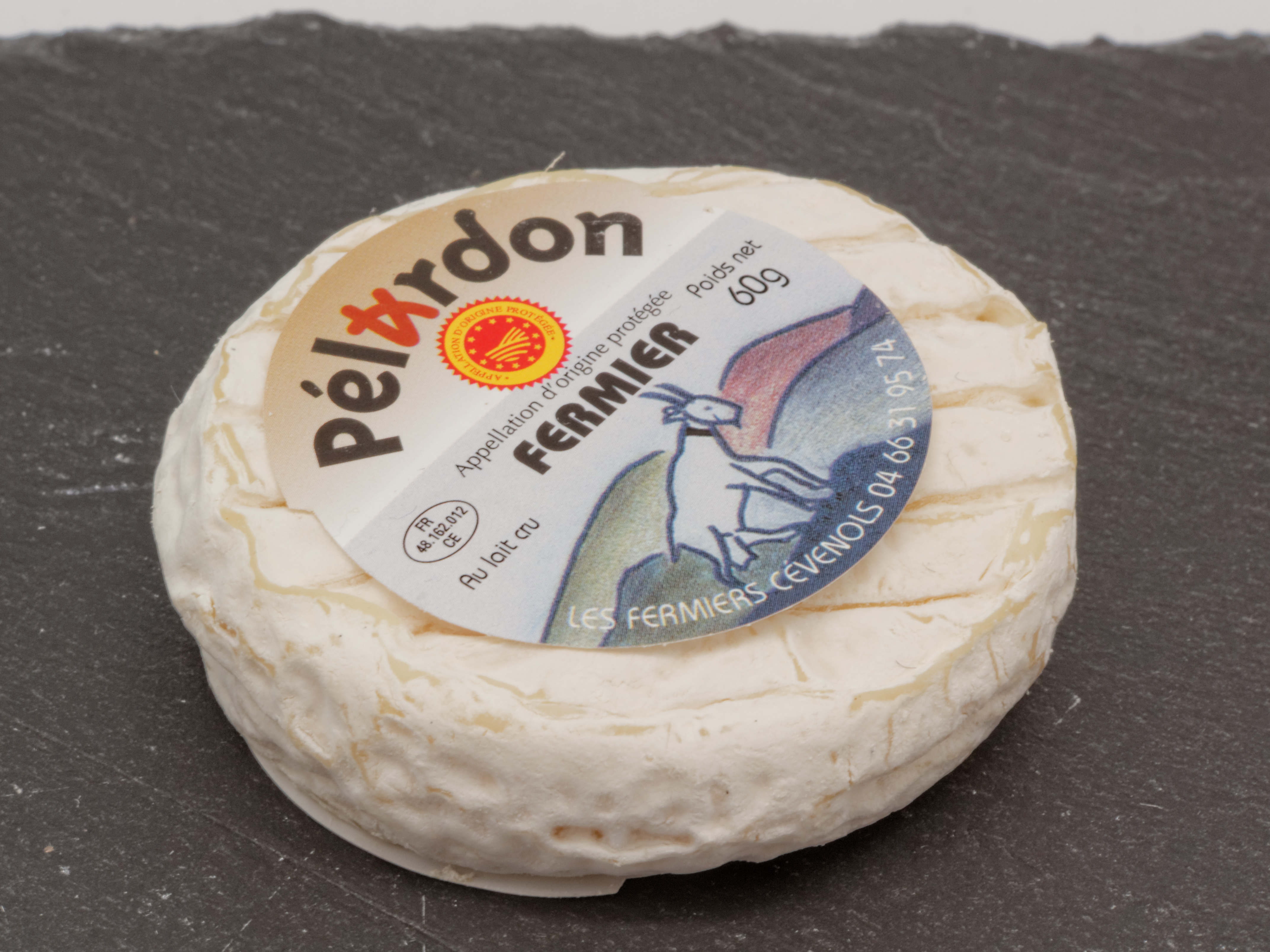 Pélardon